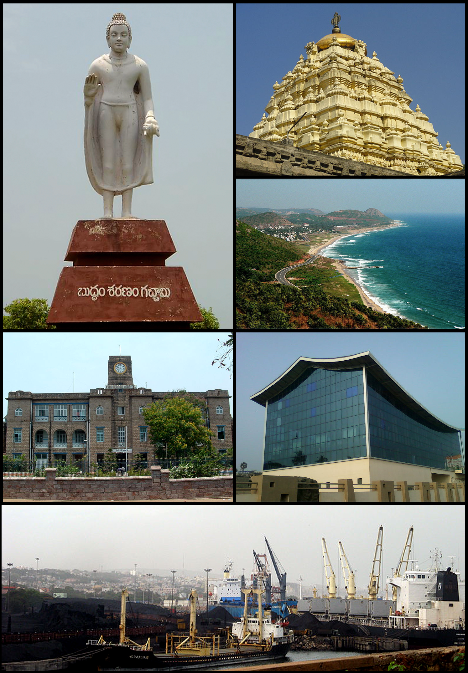 Montage of Visakhapatnam with Images from wikimedia commons